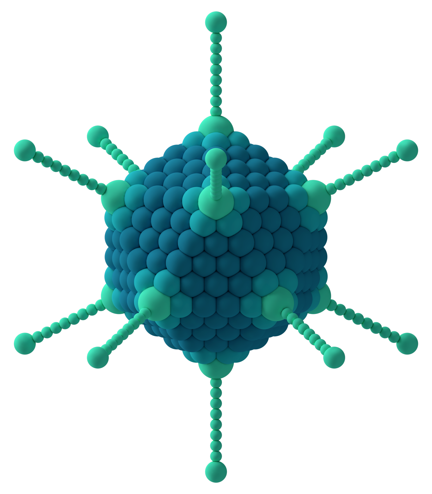 A simplified 3D-generated structure of the adenovirus